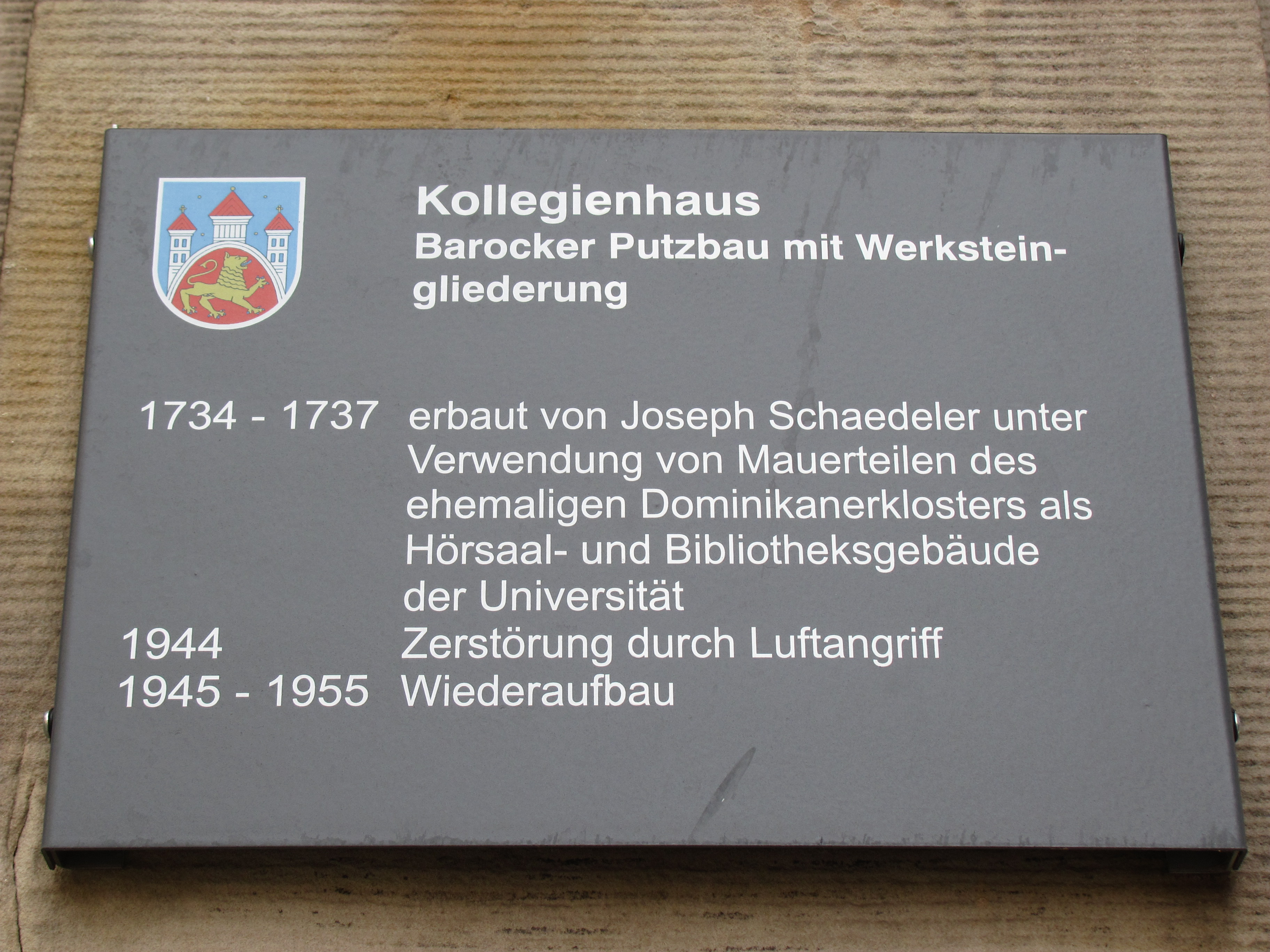 Conmemorative plaque on Kollegien Building, University of Göttingen, Lower Saxony, Germany